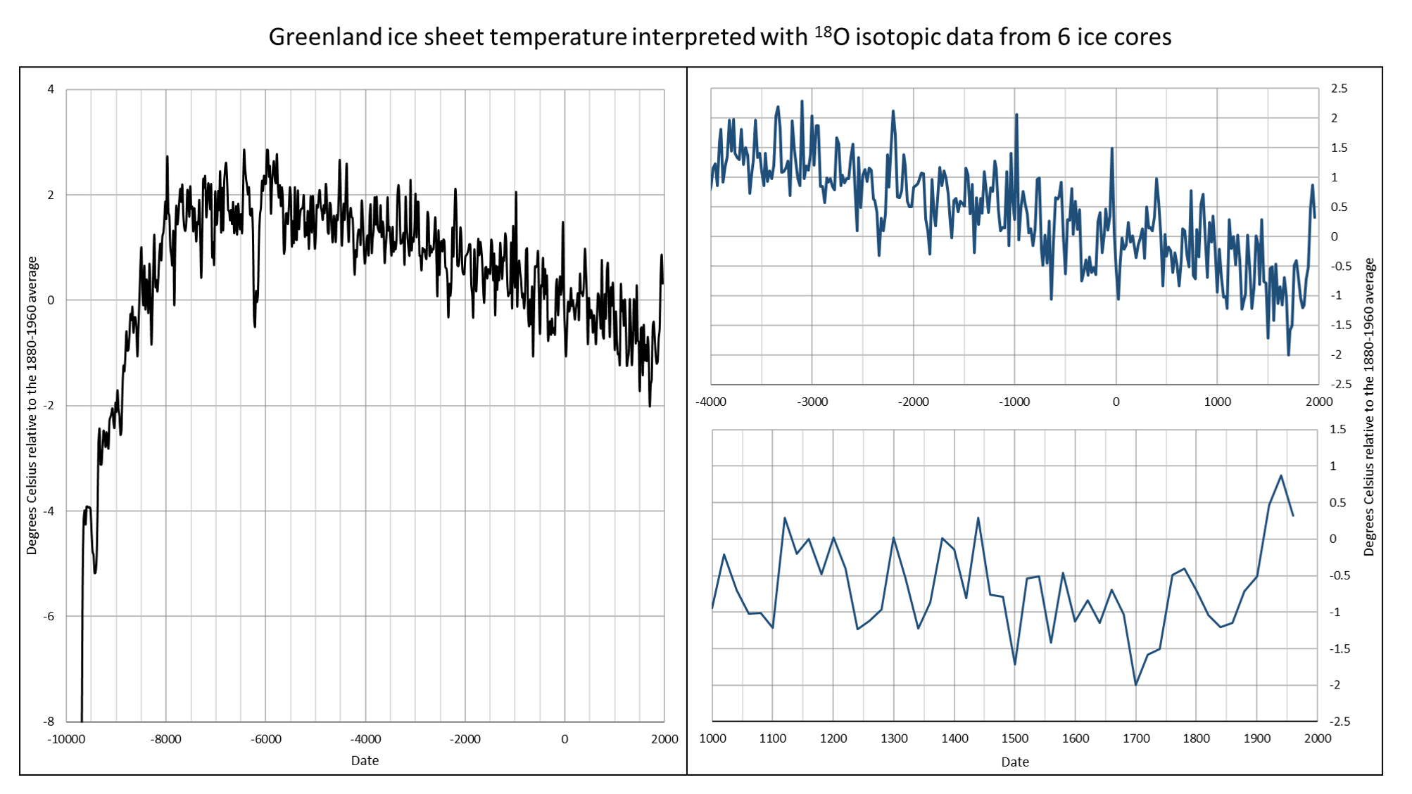 The temperature reconstruction produced using data from all six ice cores is shown by the black line in the attached figure, and spans the period from 9690BC to AD1970. The blue lines represent two focus on the dataset, first on the Late Holocene (or Meghalayan) and then on the last millenium. It has a resolution of around 20 years, meaning that each data point represents the average temperature of the surrounding 20 years. So, the end of the record – 1970 – shows the average temperature between 1960 and 1980. The original data for the creation of these figures have been downloaded from the NOAA website: ftp://ftp.ncdc.noaa.gov/pub/data/paleo/icecore/greenland/vinther2009greenland.txt ORIGINAL REFERENCE: Vinther, B.M., S.L. Buchardt, H.B. Clausen, D. Dahl-Jensen, S.J. Johnsen, D.A. Fisher, R.M. Koerner, D. Raynaud, V. Lipenkov, K.K. Andersen, T. Blunier, S.O. Rasmussen, J.P. Steffensen, and A.M. Svensson. 2009. Holocene thinning of the Greenland ice sheet. Nature, Vol. 461, pp. 385-388, 17 September 2009. SEE ALSO: Factcheck: What Greenland ice cores say about past and present climate change